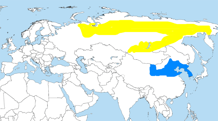 Range map for Prunella montanella Sources Brazil, Mark (2009) Birds of East Asia, London: A & C Black, p. 454 ISBN: 0-7136-7040-1. Siberian Accentor Prunella montanella. Handbook of the Birds of the World Alive. Lynx Edicions (2013). Retrieved on 29 September 2016. Base map is File:A_large_blank_world_map_with_oceans_marked_in_blue.PNG